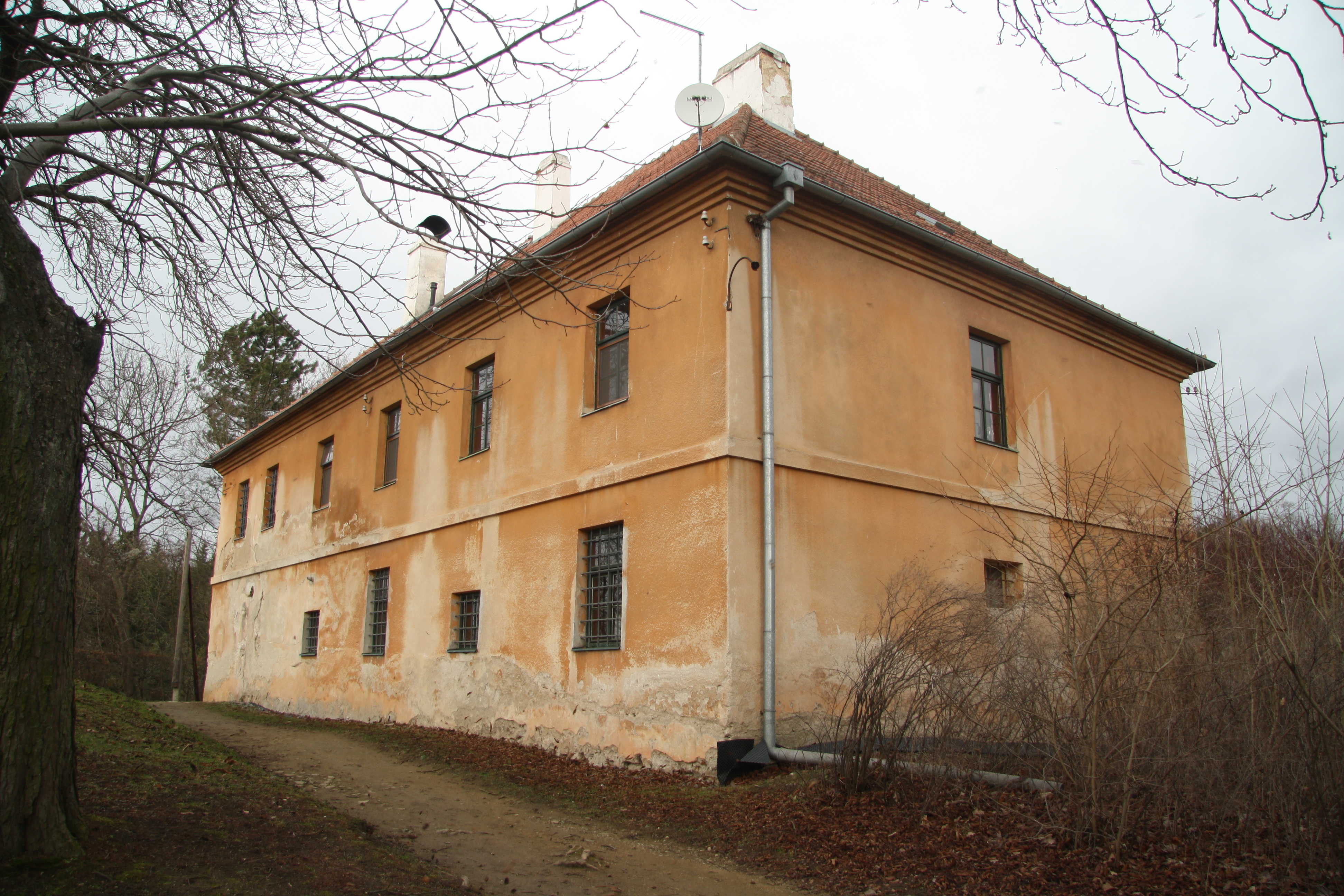 Front view of Galerie 12 in Náměšť nad Oslavou, Třebíč District.